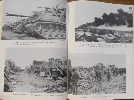 Few pictures of the war destruction